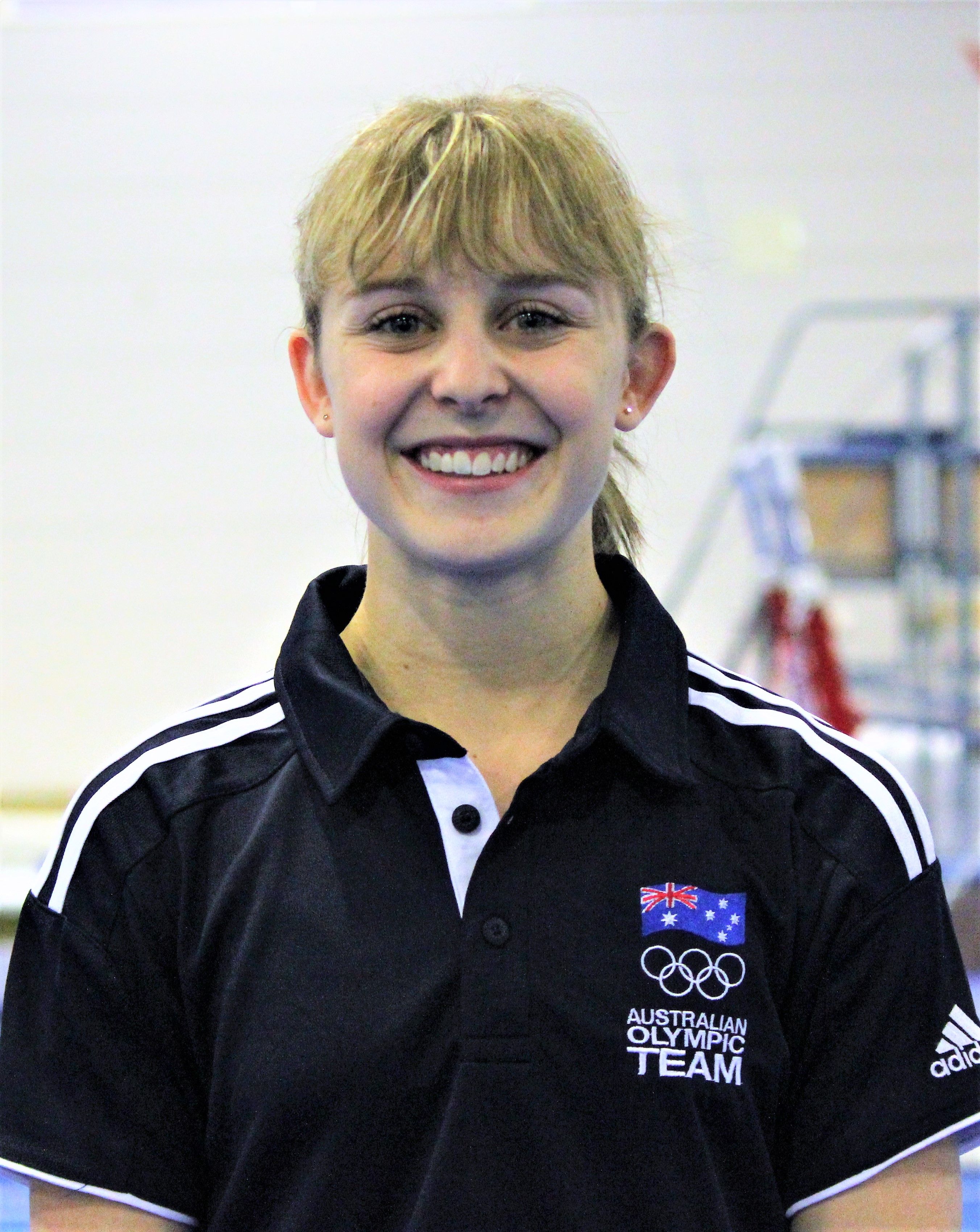 A head shot of an Australian gymnast Lauren Mitchell.